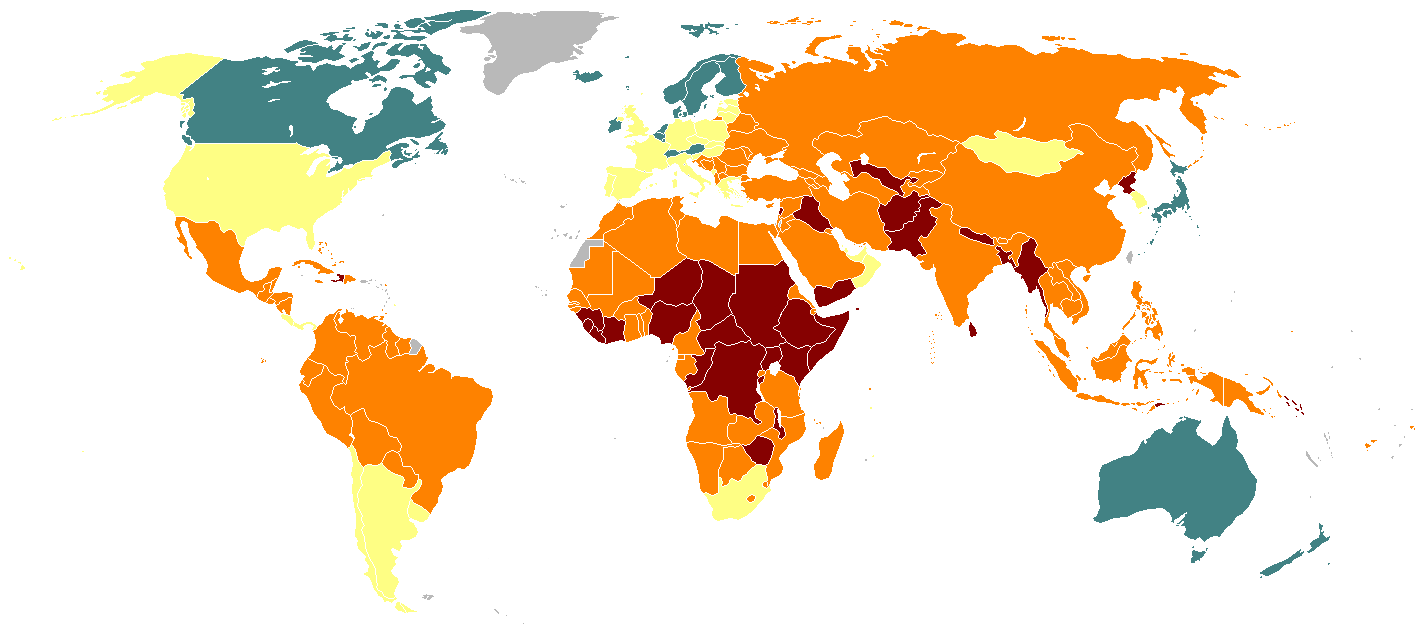 Failed State Index, 2007